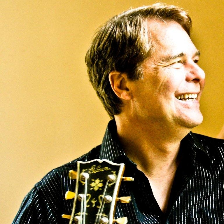 Jack and the Gibson Guitar